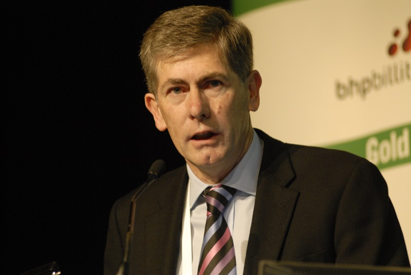 Geoff Love